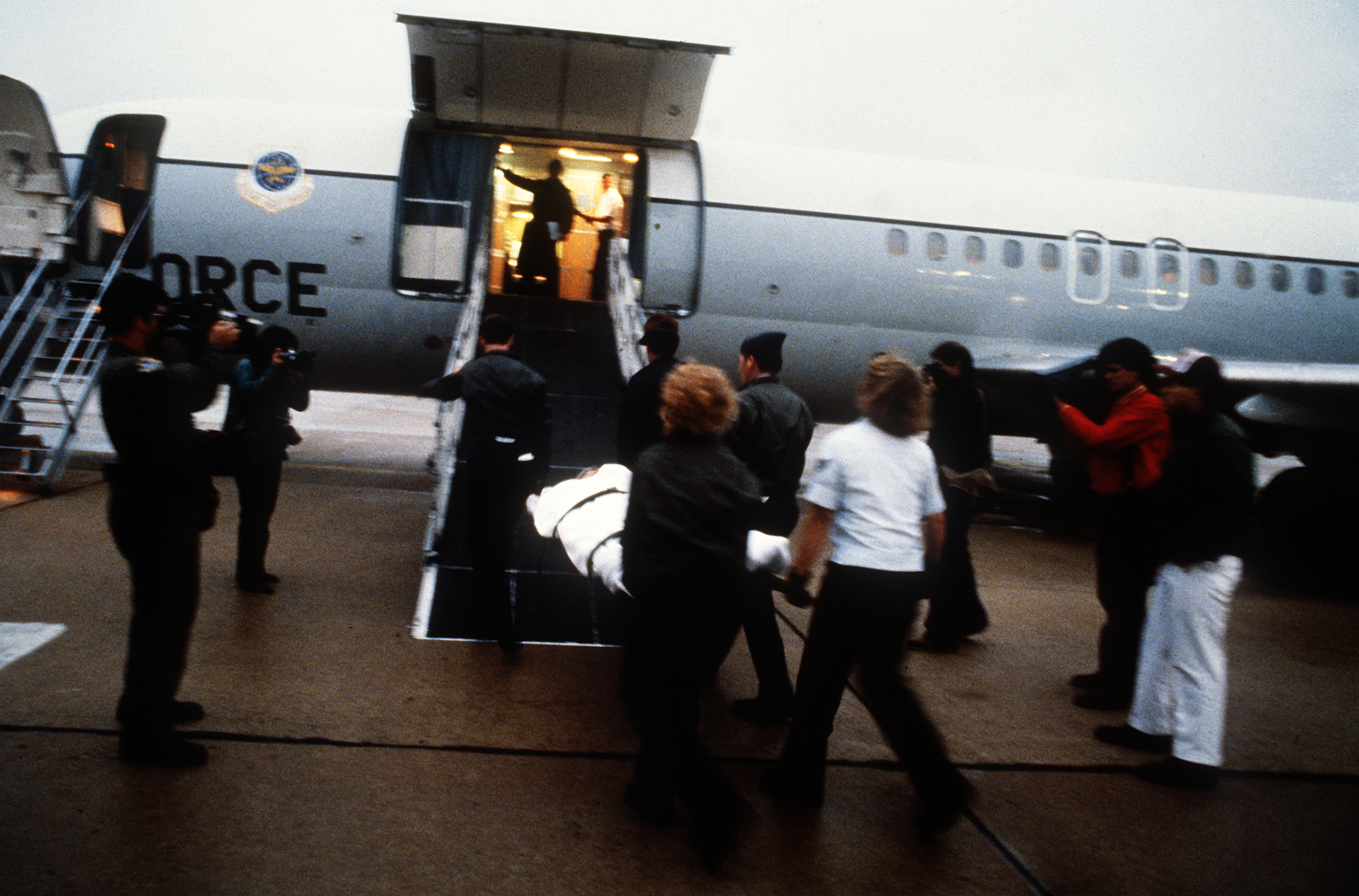 Injured survivors of a DC-10 passenger aircraft crash in Malaga, Spain, are carried aboard a waiting C-9 Nightingale aircraft from the Military Airlift Command, 73rd Aeromedical Airlift Squadron, for evacuation to Boston and Buffalo.